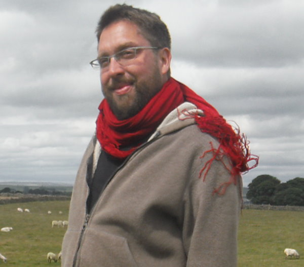 Gavin Munro head and shoulders shot